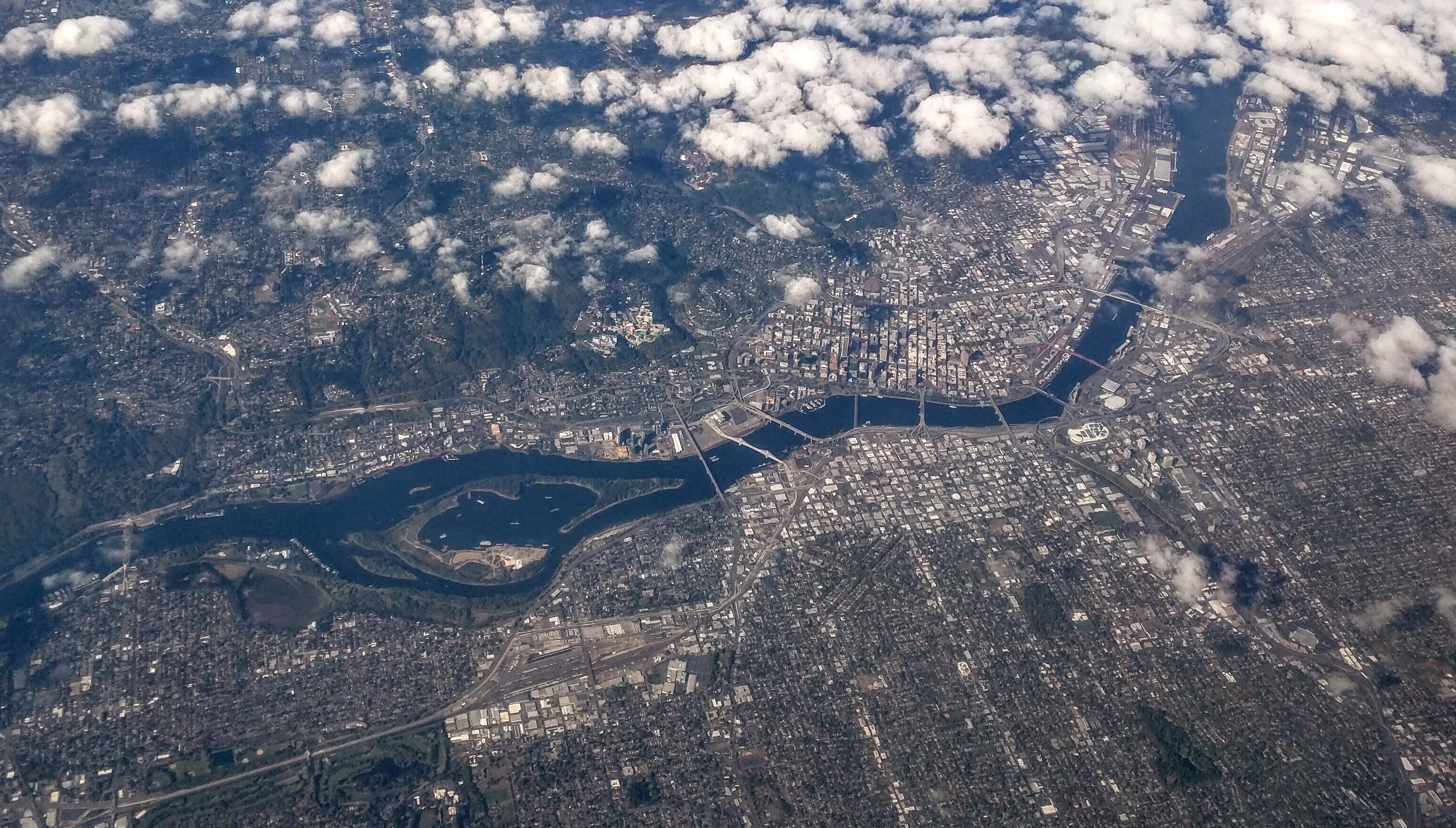 Aerial view of Portland, Oregon, and its bridges across the Willamette River. This view is looking generally west (or west-southwest), with downtown being the densely developed area "above" (west of) the river from this angle, and the Central Eastside Industrial District being "below" the river from this angle. The island in the river is Ross Island.